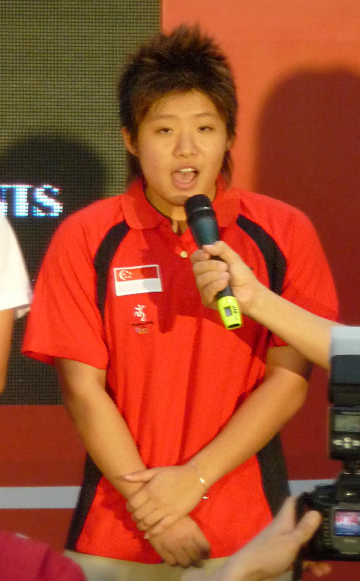 Singaporean swimmer Tao Li speaking during a ceremony to welcome Team Singapore home from the 2008 Summer Olympics.